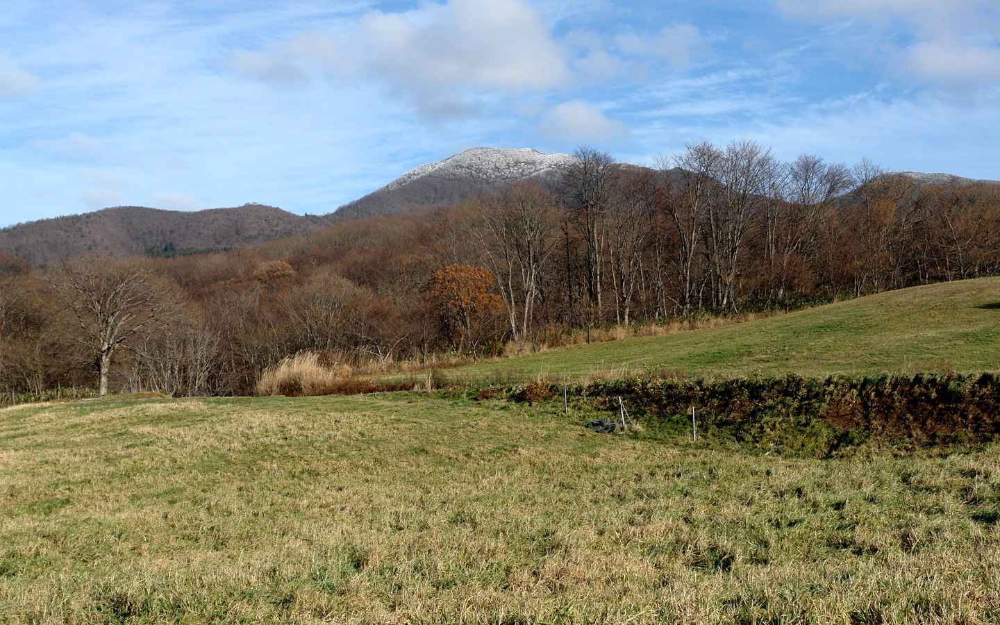 Omoshiroyama